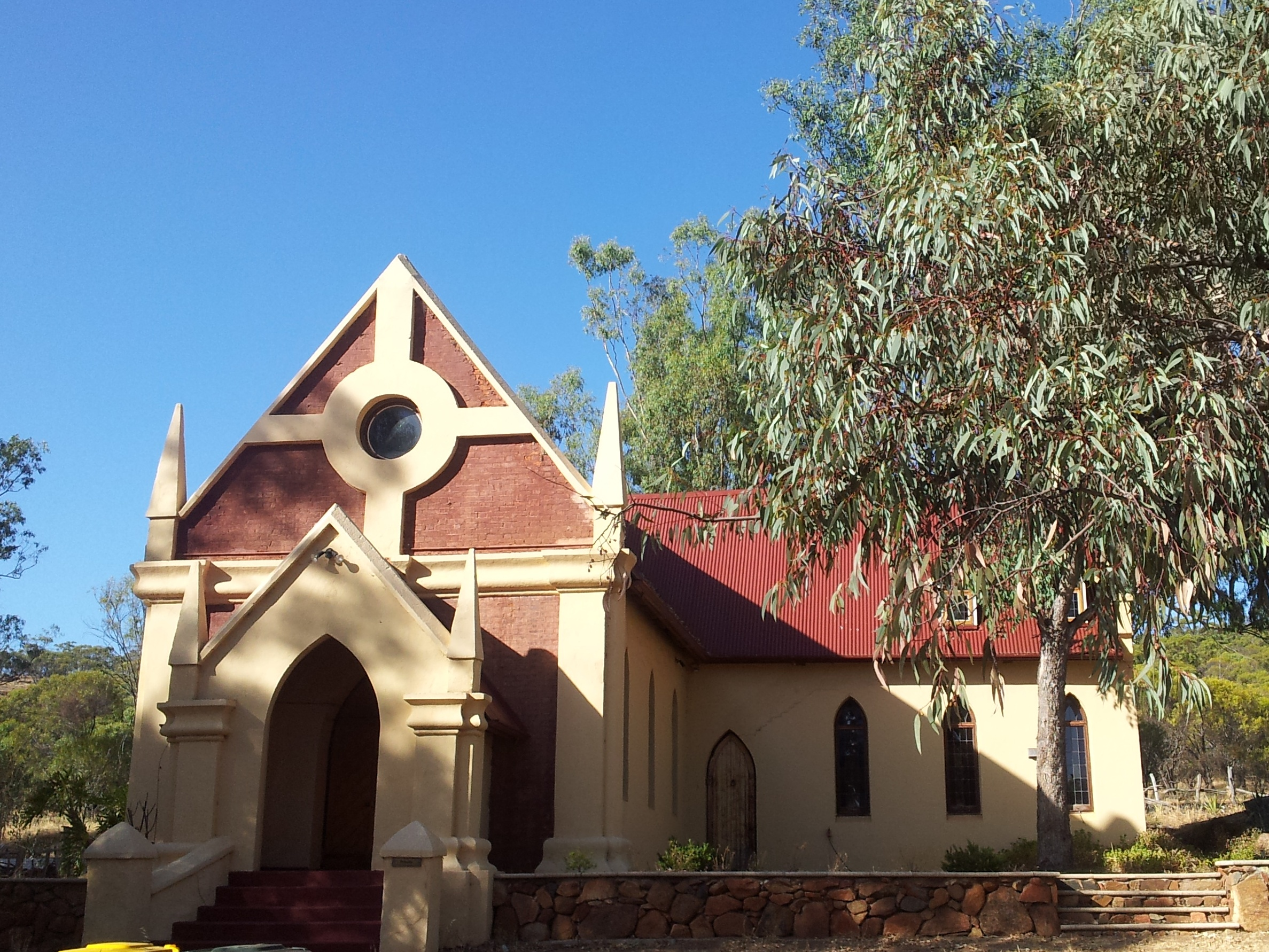 former St John the Baptist church in Stirling Street, Toodyay